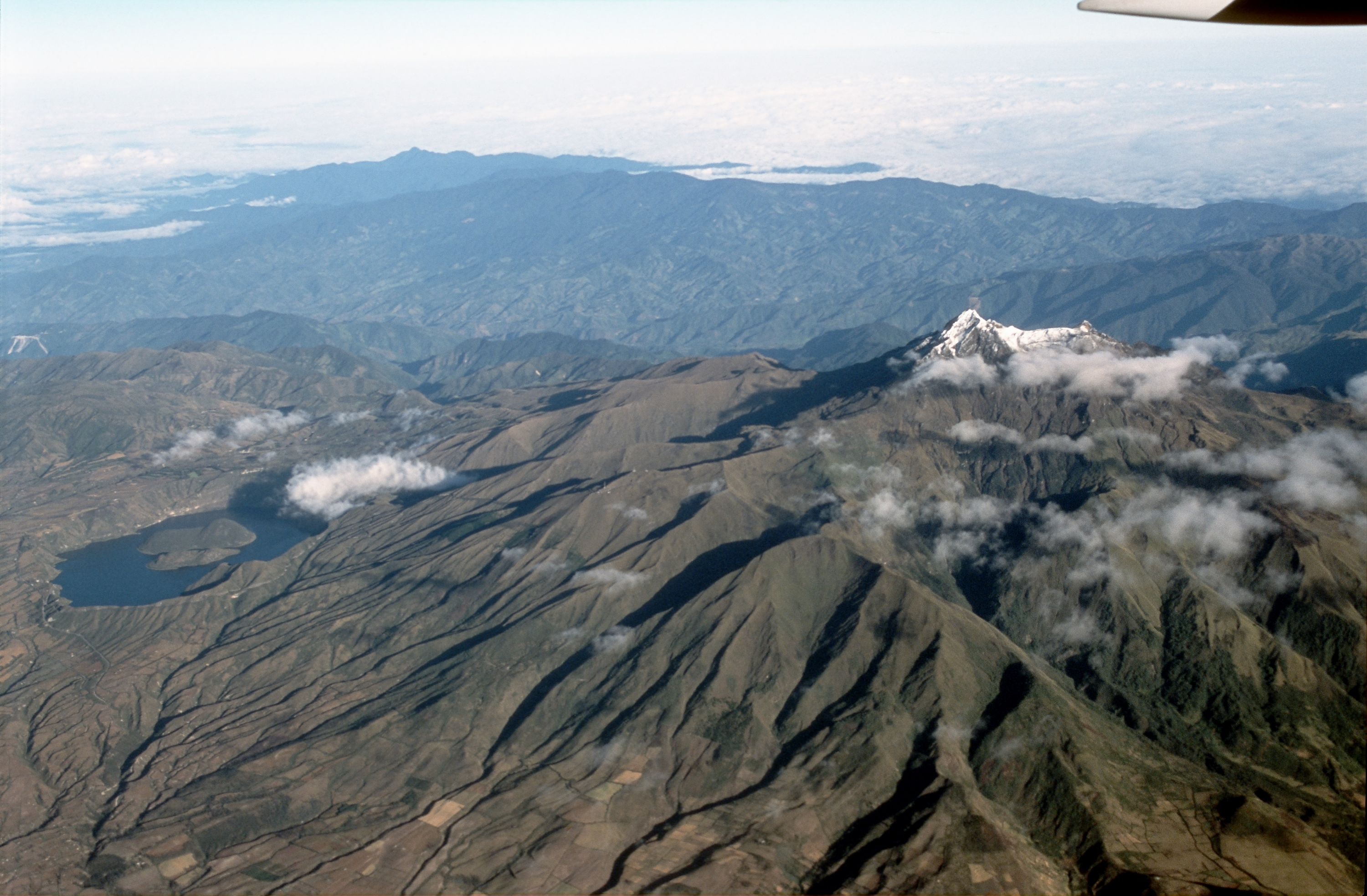 Cotocachi volcan and Laguna Cuicocha